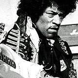 Jimi Hendrix at the amusement park Gröna Lund in Stockholm, Sweden, May 24, 1967.